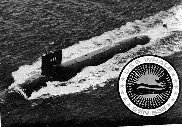 USS Whale (SSN-638); from